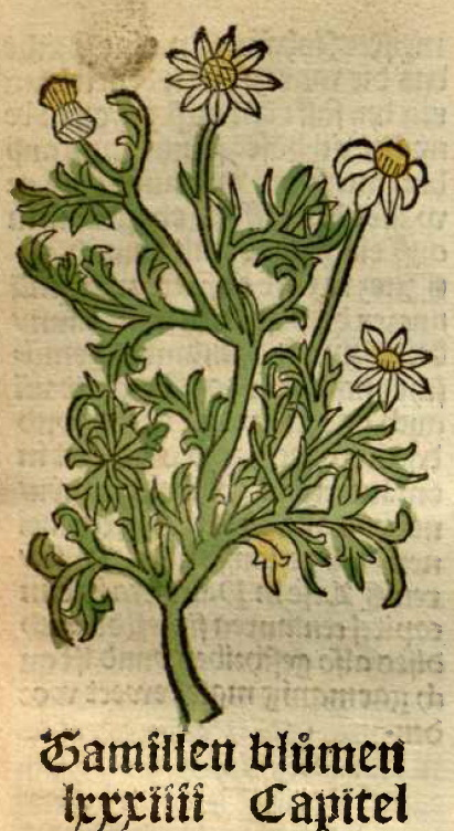 Matricaria chamomilla. Illustration from Gart der Gesundheit, 1487